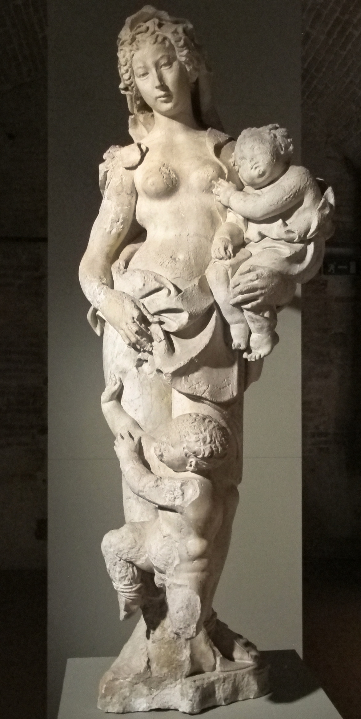 Santa Maria della Scala Hospital (Siena)